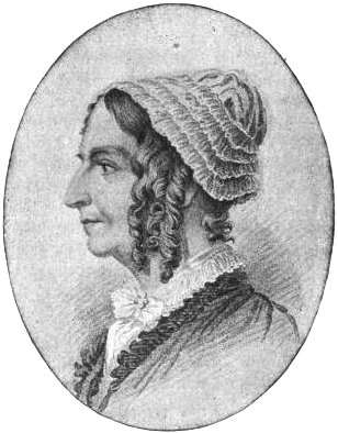 Portrait of American writer Catharine Maria Sedgwick. Image from Literary Pilgrimages in New England to the Homes of Famous Makers of American Literature... by Edwin M. Bacon. New York: Silver, Burdett and Company, 1902: p. 462